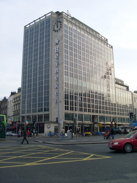 O'Connell Bridge House, or the Heineken Building Nicknamed the Heineken Building because of the advert on the side, which apparently once earned the owners more money than rent on the entire building.